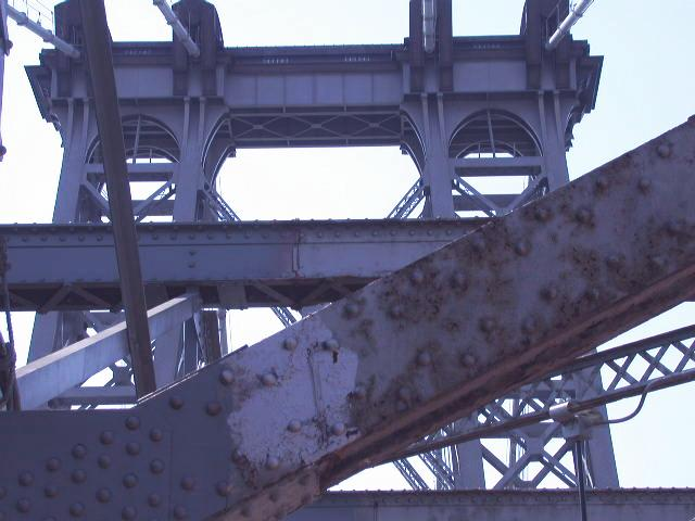 The east tower of the Williamsburg Bridge viewed from its deck. July 2004. © 2004 Matthew Trump